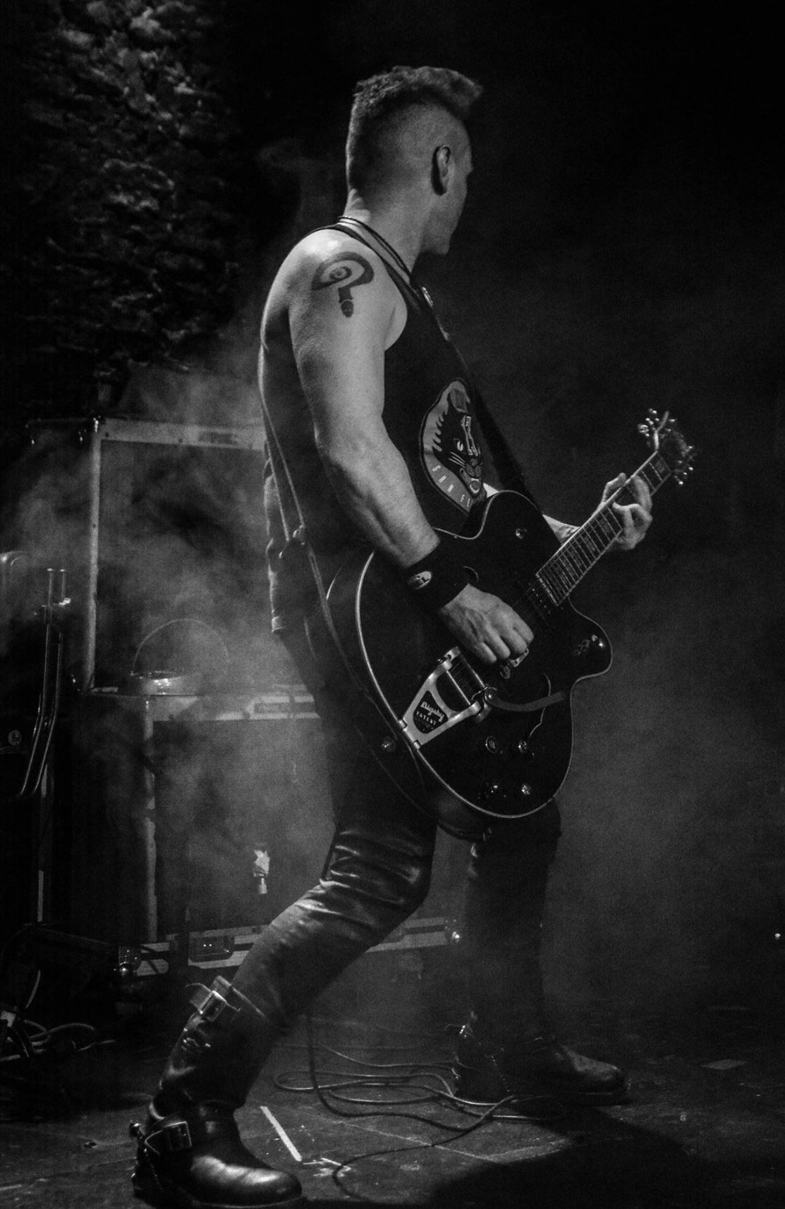 The Hangmen live 2018.